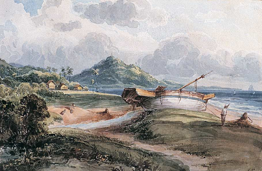 Title: Mount Erskine Media: Watercolour Width: 213 mm (8.4 in) Height: 138 mm (5.4 in) Year of creation: 1824 Mode of acquisition: Purchased Spink & son 1981